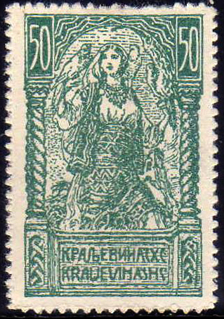 Postage stamp of the Kingdom of Slovenes, Croats and Serbs; Ljubljana Directorate; 1919; Michel No. 107II